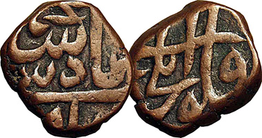 The image depicts Dam, which was the copper coin issued by Sher Shah Suri